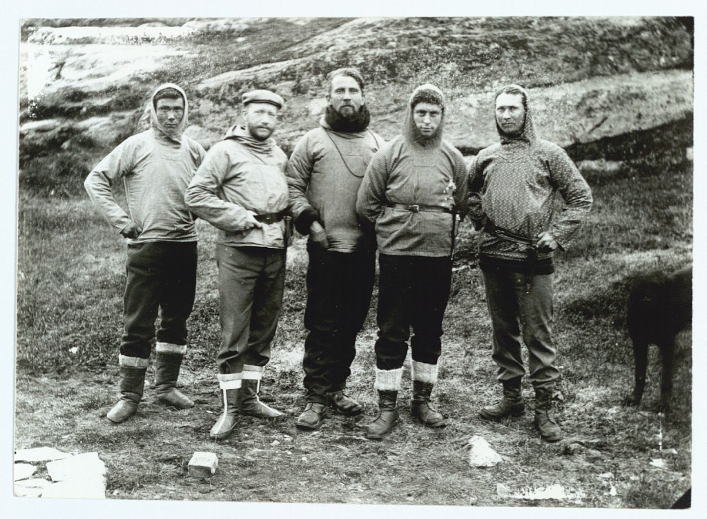 Members of the Literary Greenland Expedition: Jørgen Brønlund, Alfred Bertelsen, Ludvig Mylius-Erichsen, Knud Rasmussen, and Harald Moltke.